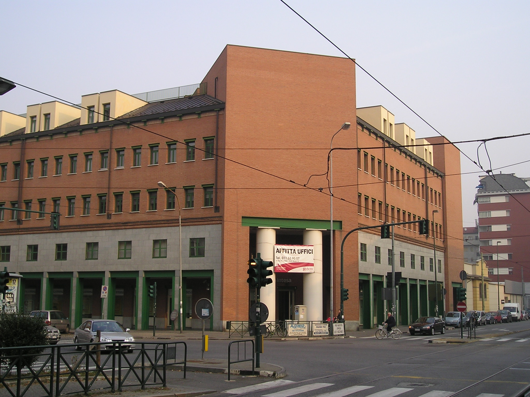 Casa Aurora